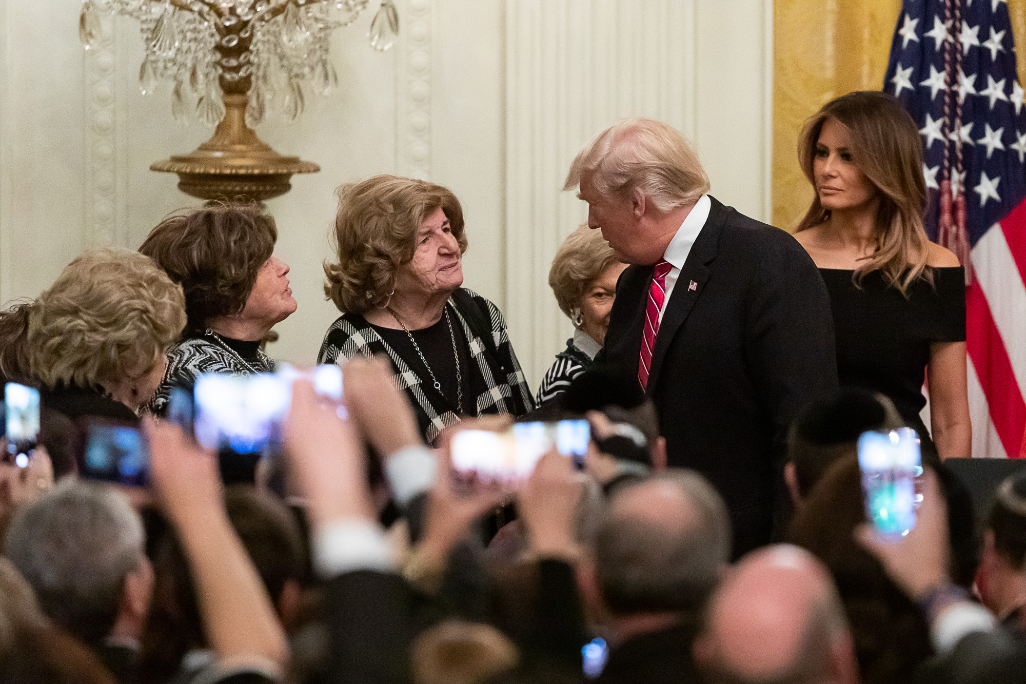 President Donald J. Trump, joined by First Lady Melania Trump, shakes hands with Holocaust survivors during a Hanukkah reception Thursday, Dec. 6, 2018, in the East Room of the White House. (Official White House Photo by Andrea Hanks)